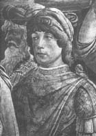 Girolamo Riario, nephew of Sixtus IV